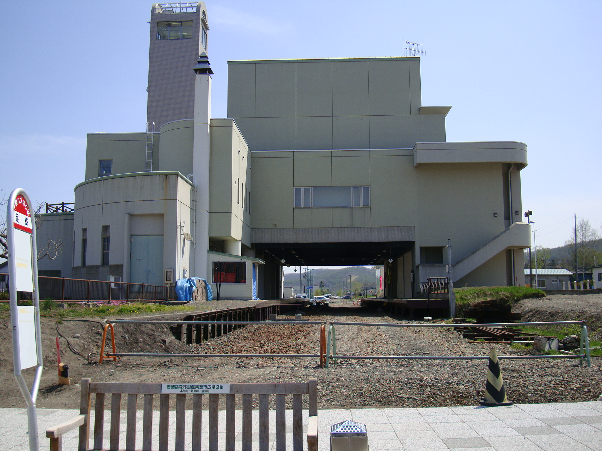 Michinoeki Ashoro Ginga Hall 21 bus stop which has been installed by removing rail tracks of former Ashoro Station